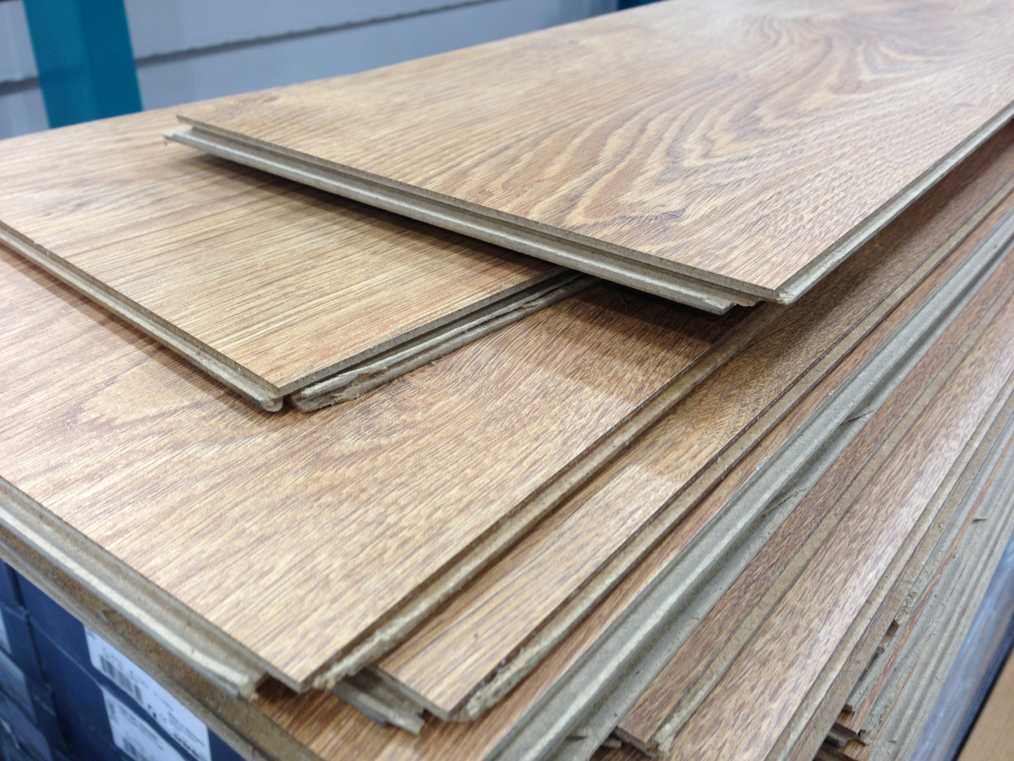 Plastic flooring with a photographic image of wood-grain on the top to give the impression that it is wood and not plastic.